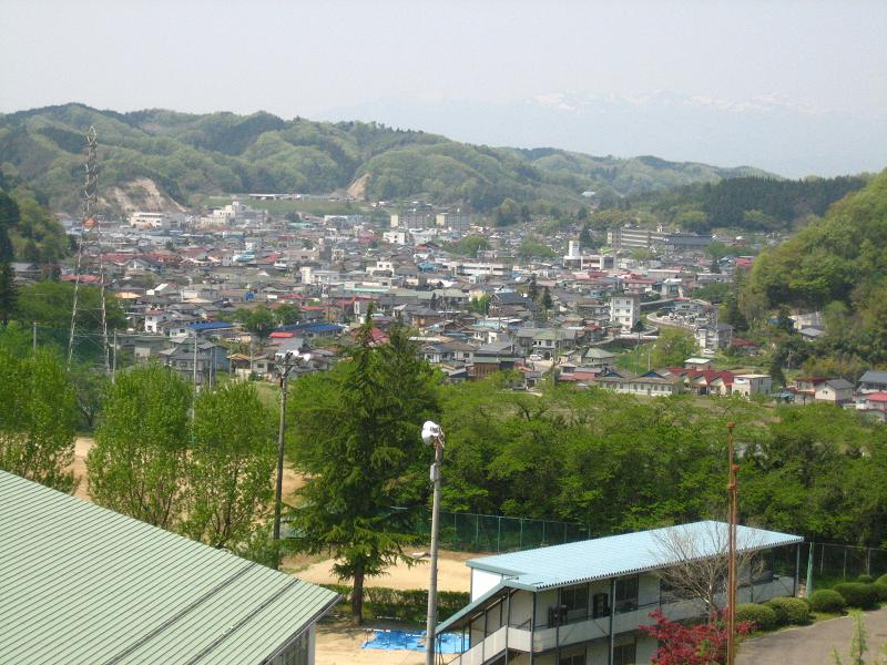 A picture of the town of Kawamata in Fukushima Prefecture, Japan, looking west from Kawamata High School. Image was taken with a Canon PowerShot SD450 Digital Elph camera and edited using a Paint Shop program on a laptop computer.